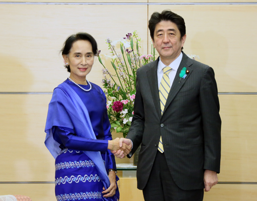 Prime Minister Abe shaking hands with Chairperson of the National League for Democracy of the Republic of the Union of Myanmar Ms. Aung San Suu Kyi.